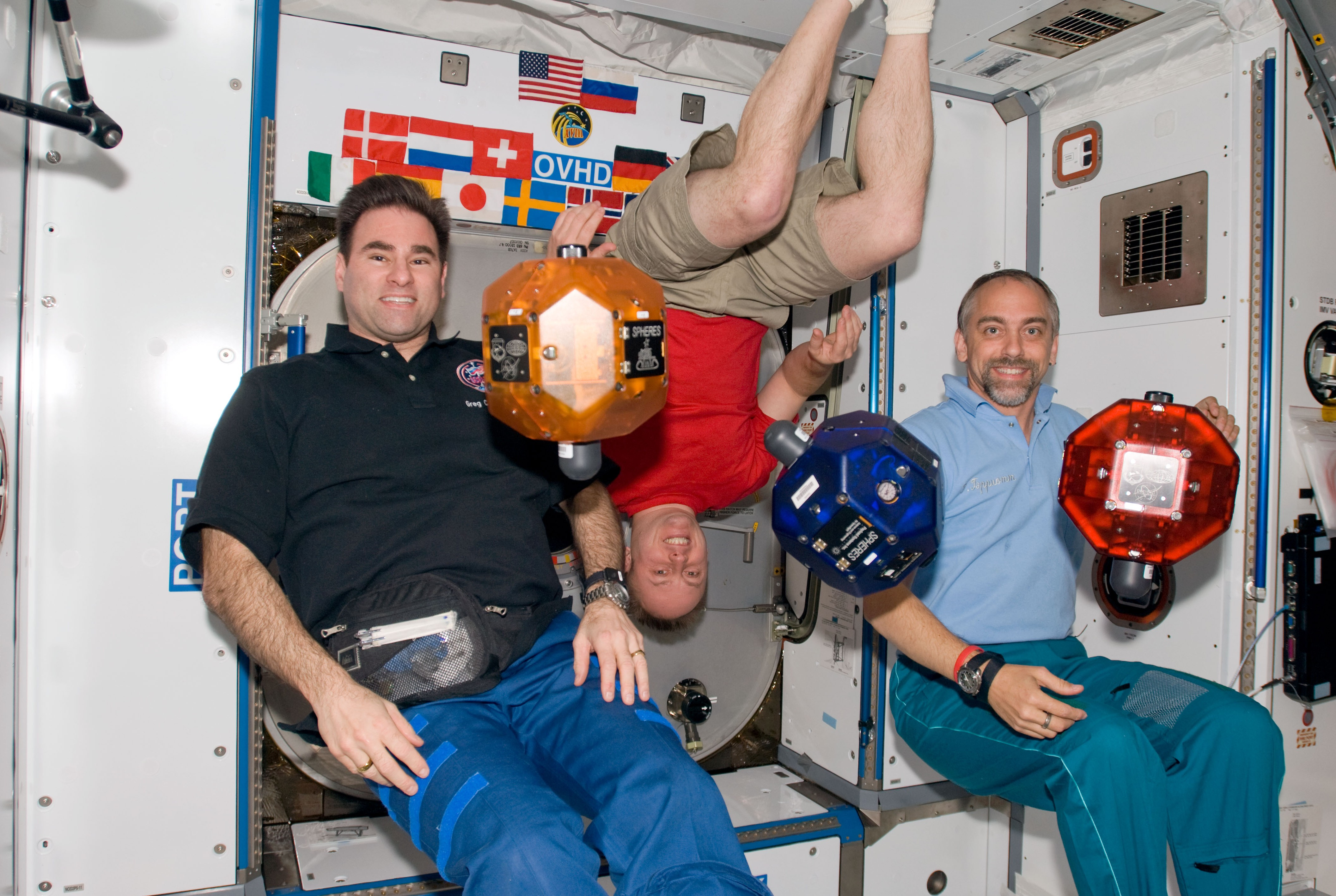 ISS017-E-021361 (22 Oct. 2008) --- Astronauts Greg Chamitoff (left), Michael Fincke, Expedition 18 flight engineer and commander, respectively; and American spaceflight participant Richard Garriott pose for a photo in the Harmony node of the International Space Station. MIT-developed Synchronized Position Hold, Engage, Reorient, Experimental Satellites (SPHERES) float freely in the foreground.